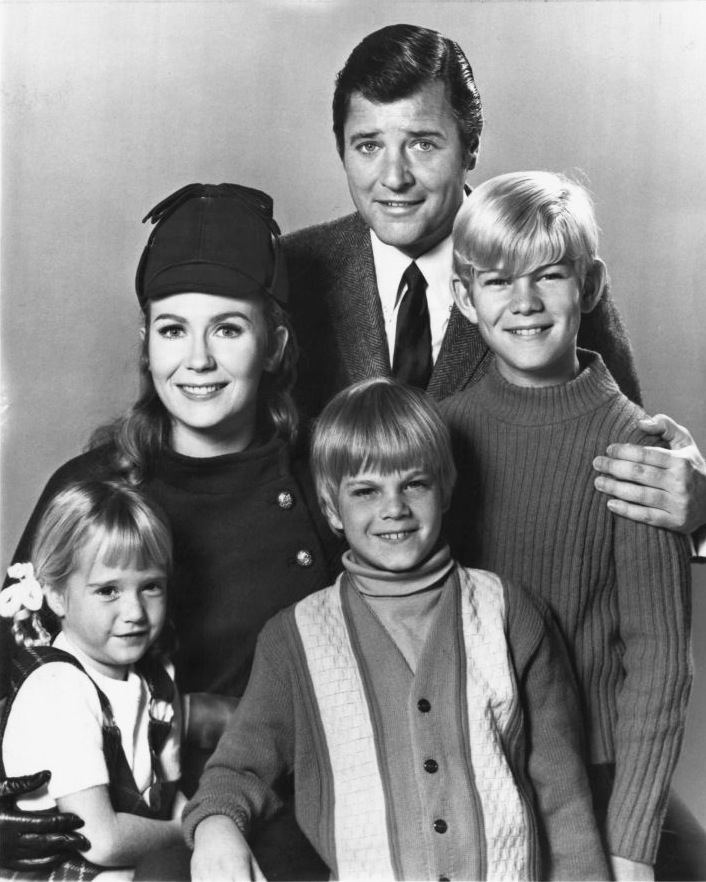 Publicity photo of (clockwise from top) Richard Long, David Doremus, Trent Lehman, Kim Richards and Juliet Mills promoting the January 21, 1971 premiere of the television series Nanny and the Professor.